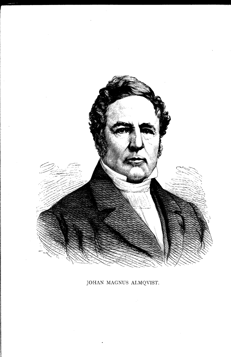 Engraving of Johan Magnus Almqvist.